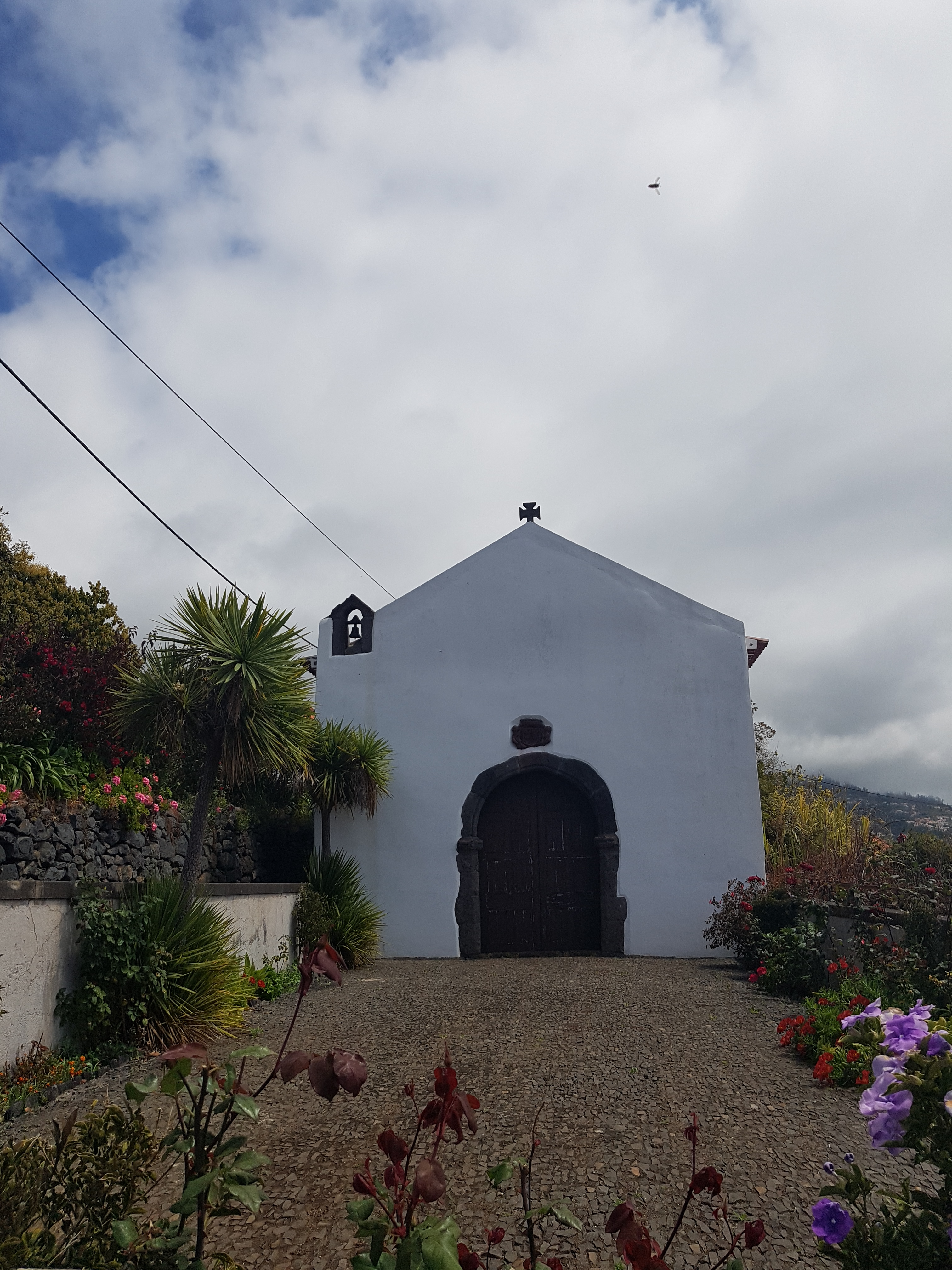 Religious Architecture Manuelina.